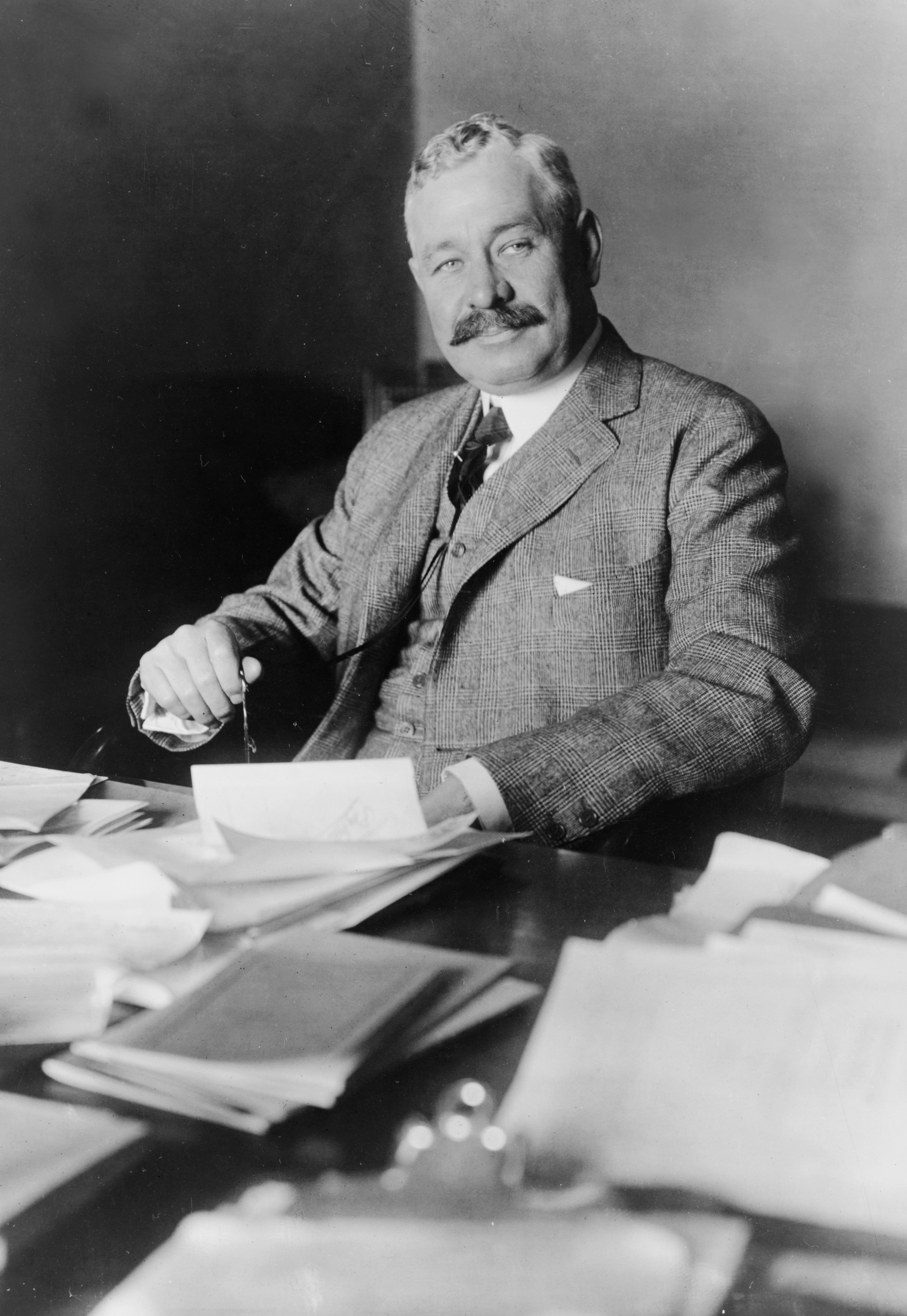 Joseph S. Frelinghuysen, half-length portrait, seated at desk, facing slightly left. Edits by User:Connormah